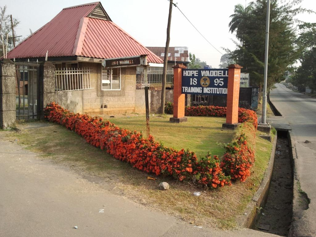 Entrance to Hope Waddell Training Institute in present day Calabar